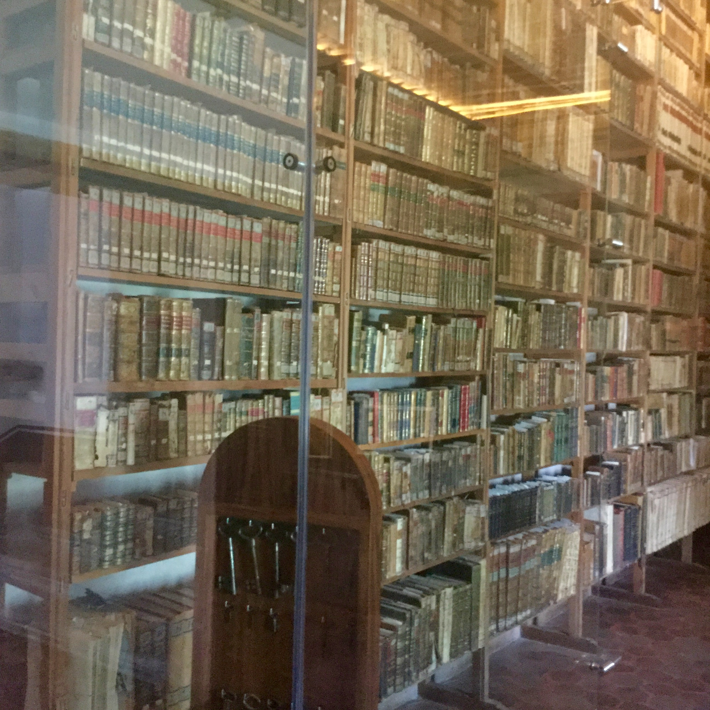 Parte del acervo de la biblioteca conventual